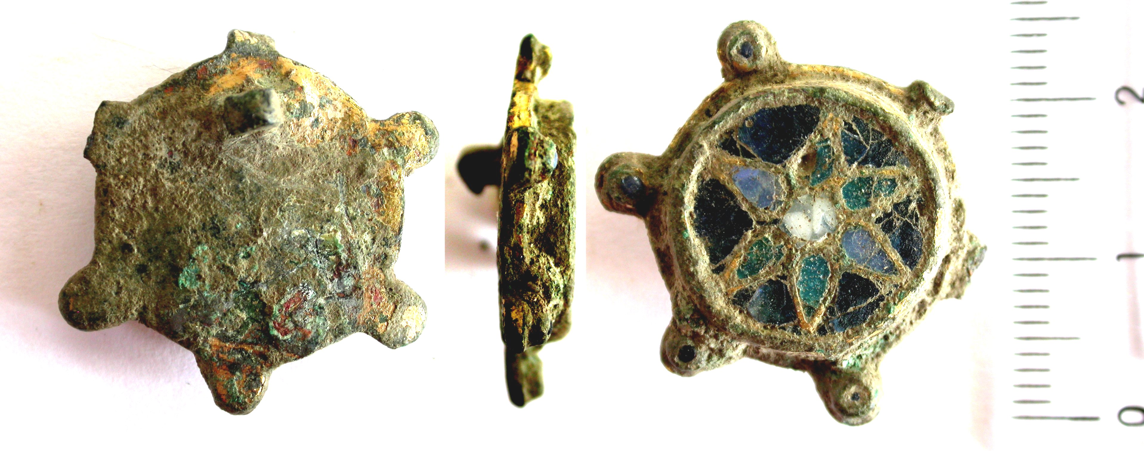 An incomplete late early-medieval (late Anglo-Saxon) - medieval copper-alloy cloisonné enamelled disc brooch (late 10th - 11th century), of the Saunderton type (Weetch Type 20.A). The brooch is constructed from a base-plate of copper alloy with six equidistant rounded projections; a circular copper-alloy collar has been soldered onto this base plate and set within the collar is the cloisonné enamel pattern. The pattern is marked out by copper alloy cells and comprises a six-petalled flower against a dark blue enamelled background. The petals of the flower are infilled with light blue enamel in two opposing cells, separated by enamel which is now blue-green. In the centre there is a circular cell infilled with white enamel. On each of the projecting lobes a small collar of copper strip was soldered; two of the six have been broken off. Each strip would have secured a glass pellet; the four that remain are dark blue. On the reverse of the base-plate are the remains of the location of twin lugs which would have secured the pin. The catch-plate survives, while the pin lug and pin are no longer present. There are patches of gilding remaining on the reverse and on the collar. Buckton (1986, 8) catalogues fifteen of these brooches, they are very similar in form and decoration. Dimensions: thickness: 4.99 mm; diameter: 25.16 mm